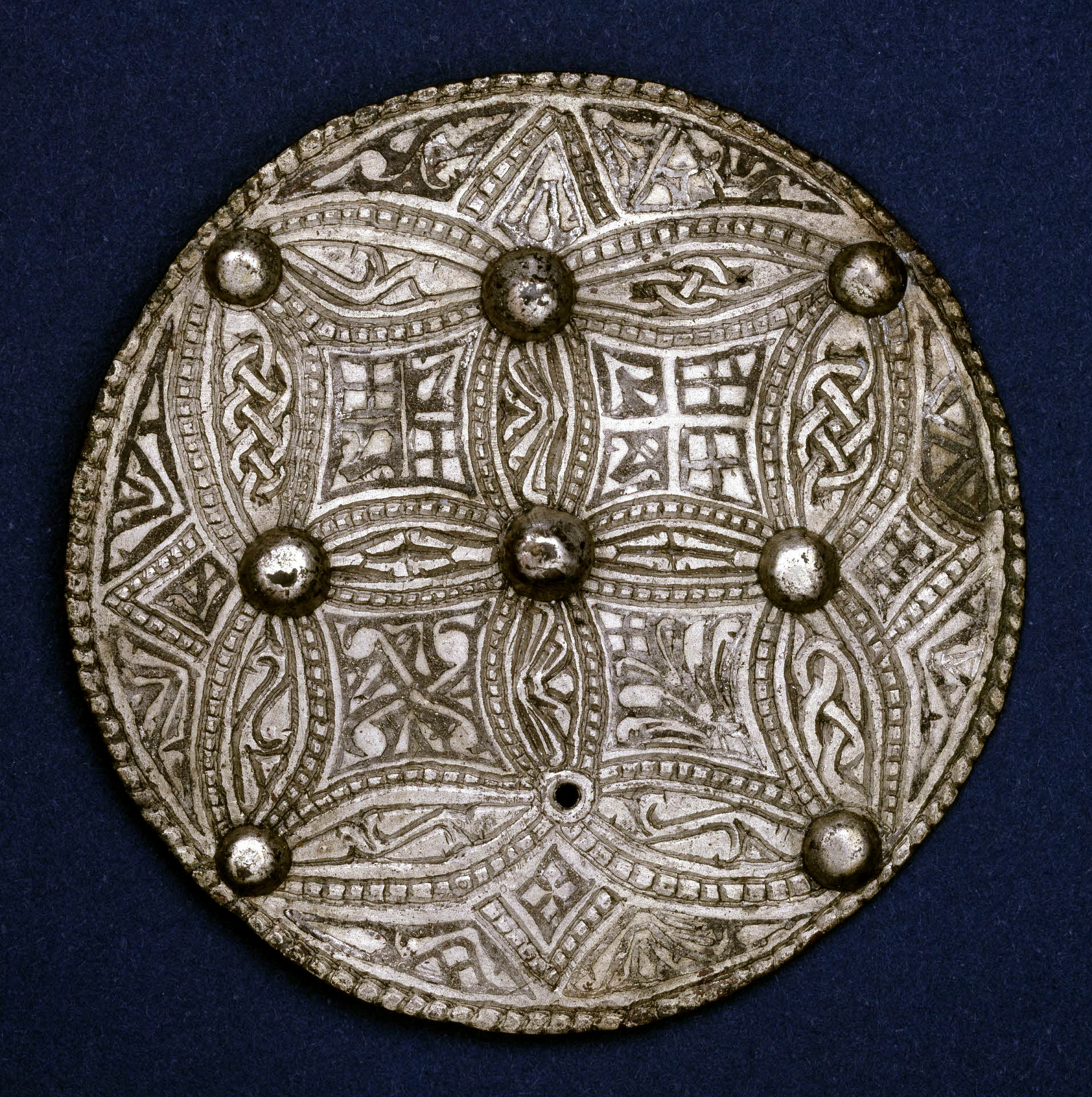 Trewhiddle style silver sheet disc brooch from the Beeston Tor Hoard, discovered in 1924 by George Wilson at Beeston Tor in Staffordshire, England